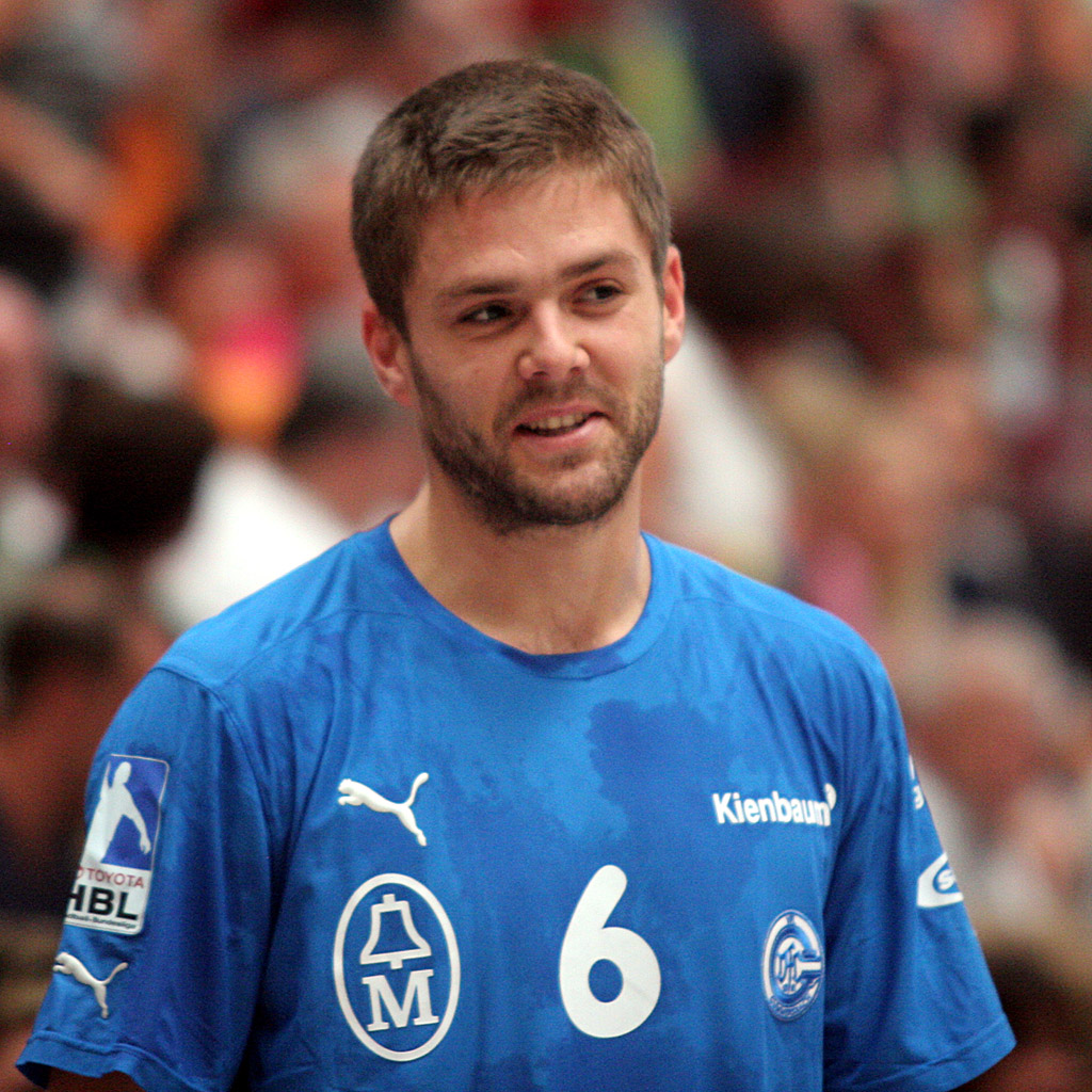 Drago Vuković, handball player from VfL Gummersbach (Germany), during the Schlecker Cup 2008 in Ehingen (Germany)